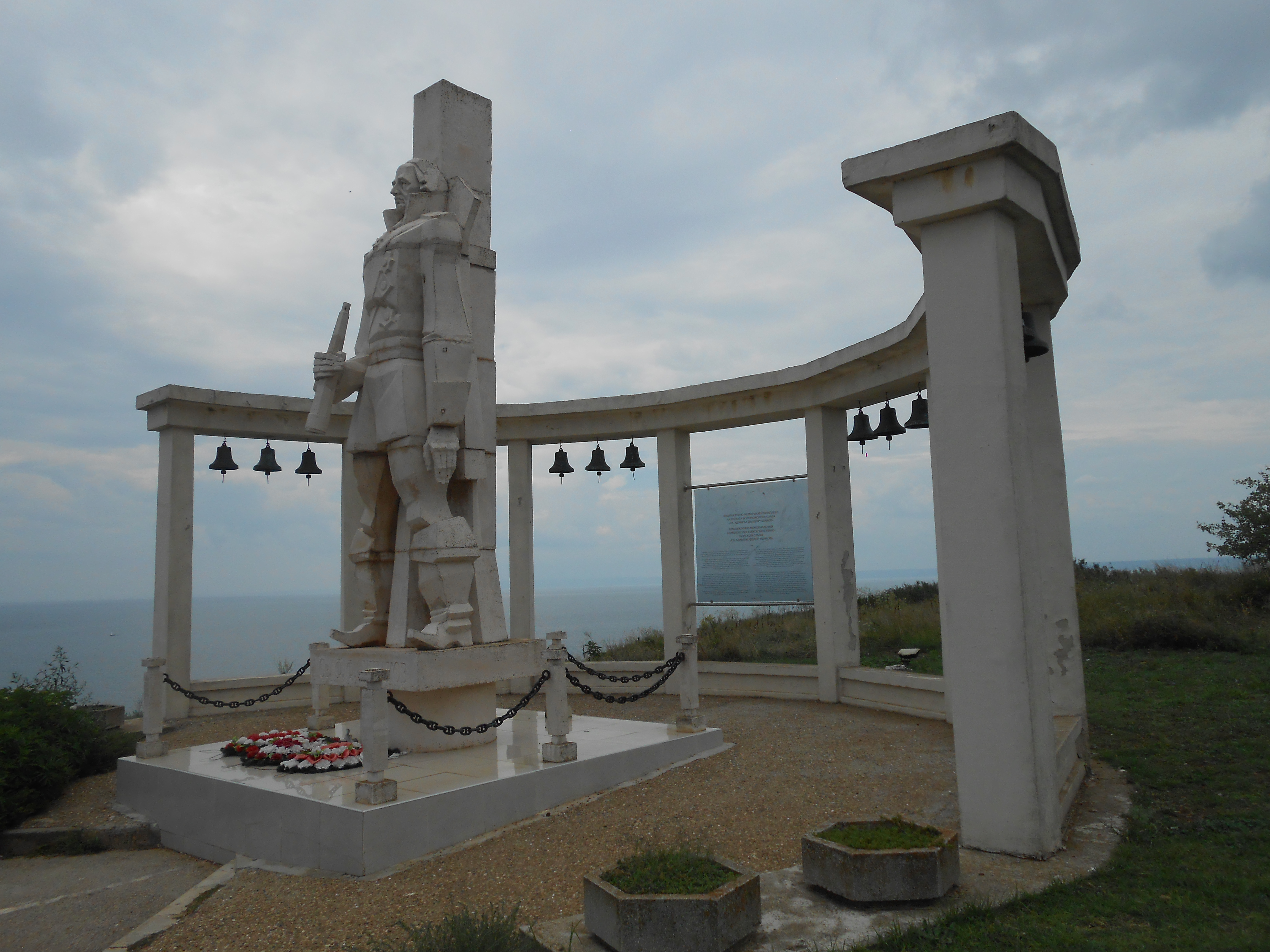 monument to Admiral Fyodor Ushakov, Kaliakra, Kavarna, Bulgaria